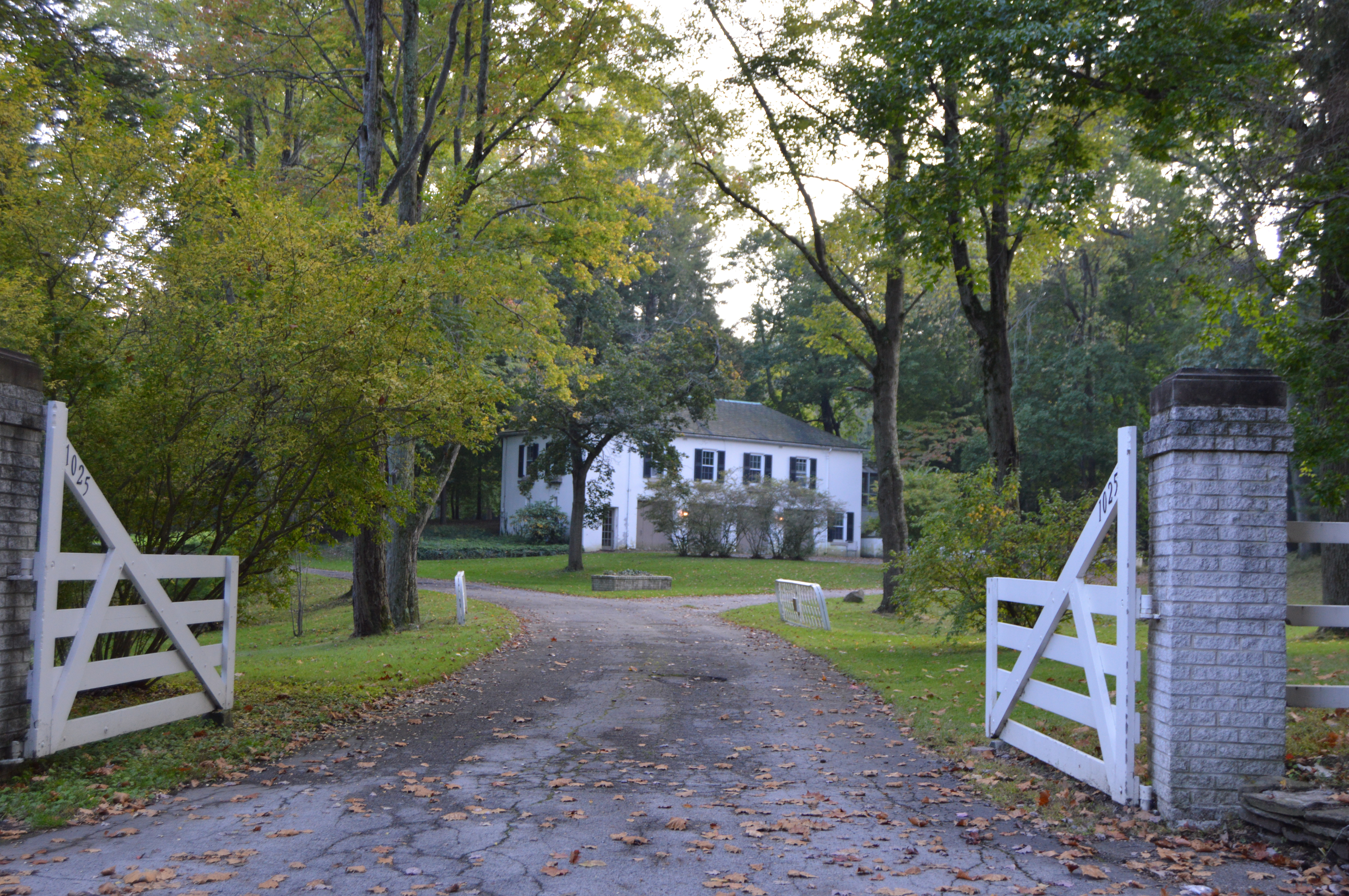 Distant view of the Richard Garlick House, located at 1025 Ravine Drive in Liberty Township, Trumbull County, Ohio, United States. Built in 1914, the house and associated buildings are listed together on the National Register of Historic Places.